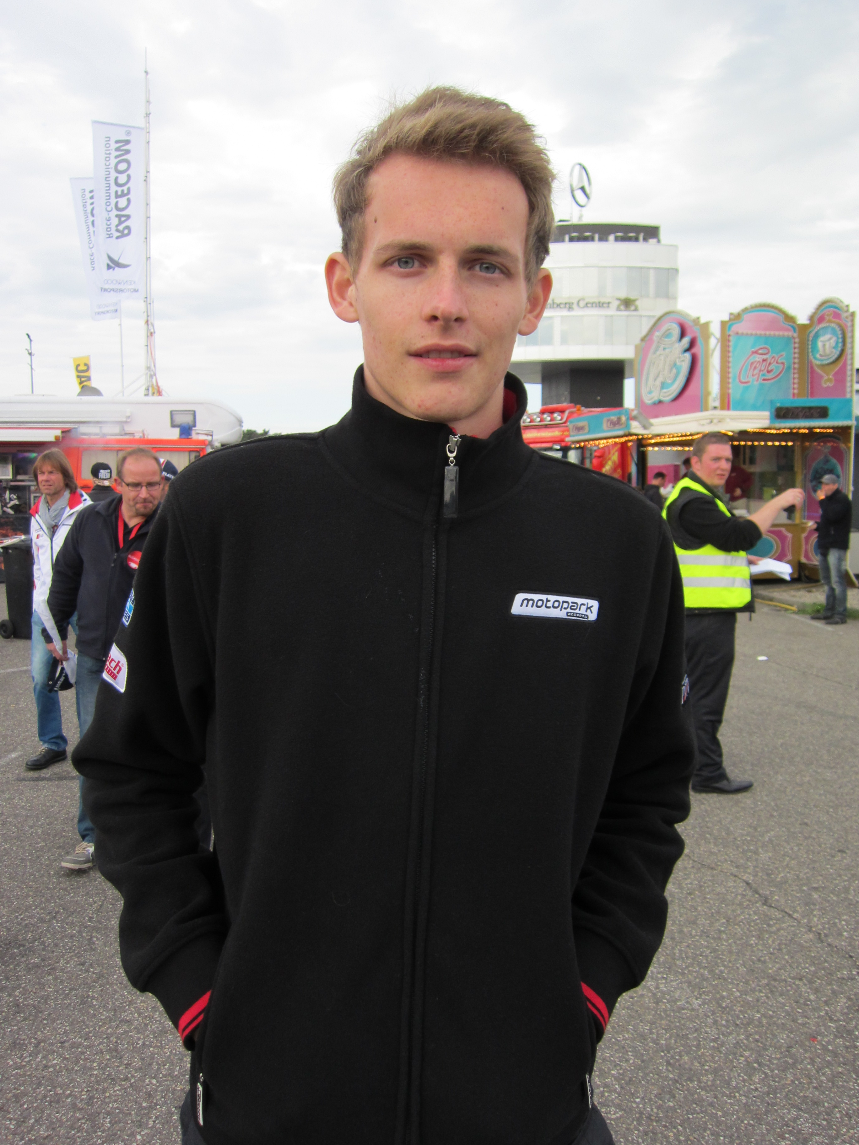 Emil Bernstorff: the photo was taken during 2013's ADAC GT Masters race weekend at Hockenheim